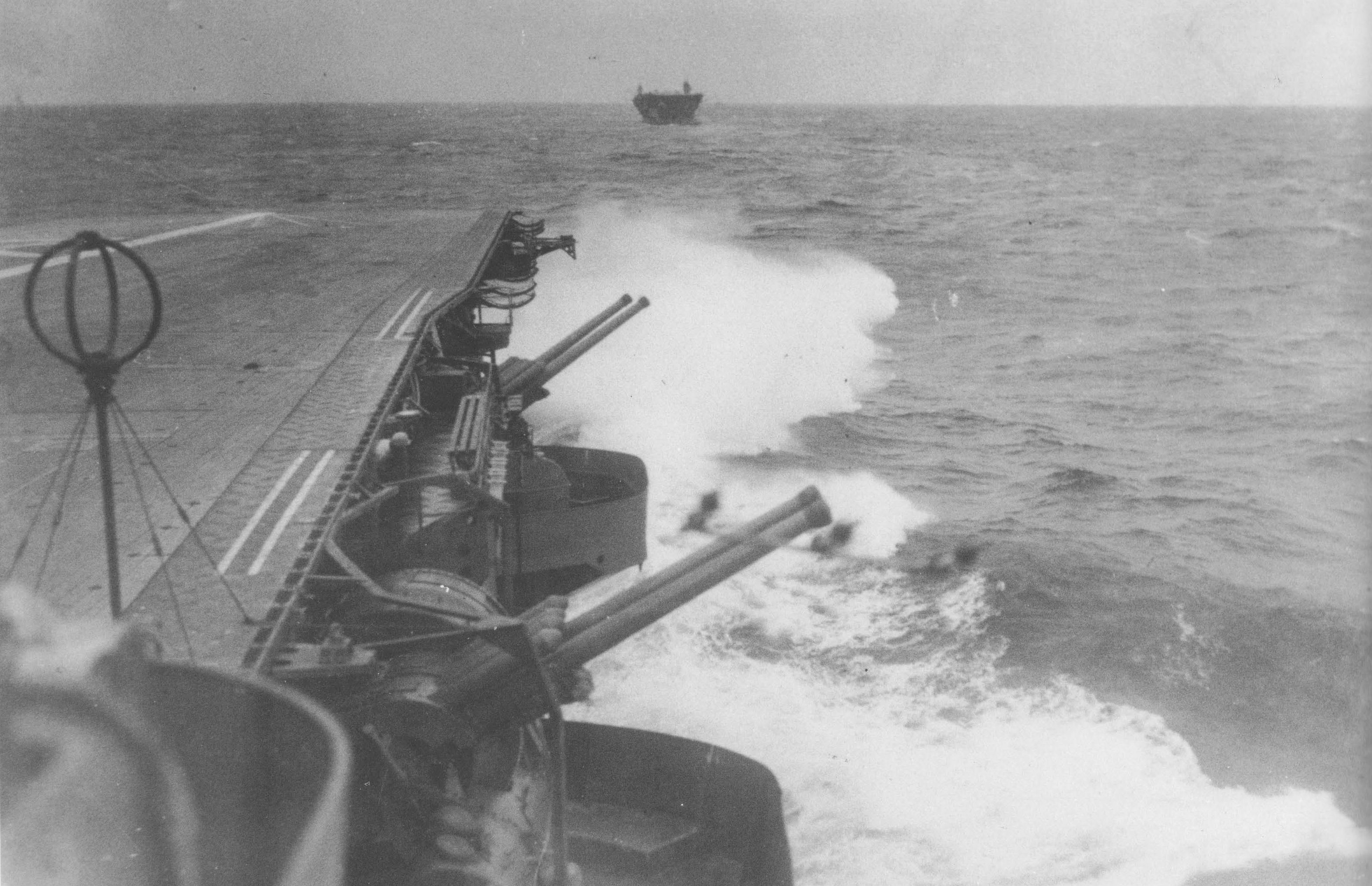 Imperial Japanese Navy aircraft carriers Zuikaku (foreground) and Kaga (background) head for Pearl Harbor in November 1941 prior to the initiation of the Pacific War.